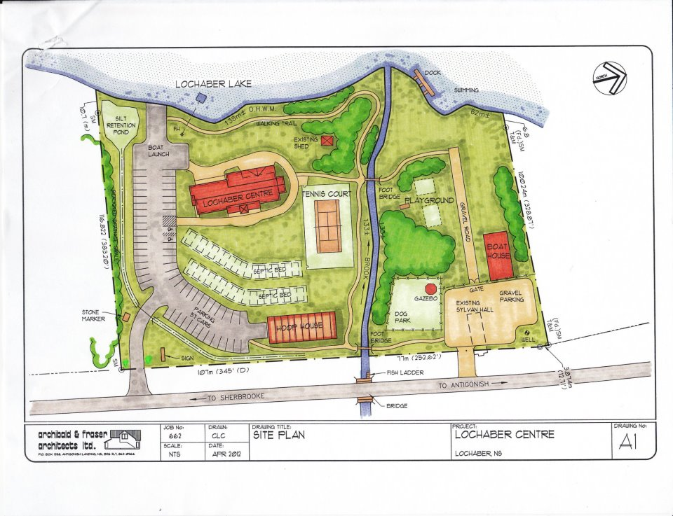 This is the site plan for the Lochaber Centre Site Plan. The site plan may be changed in the future.